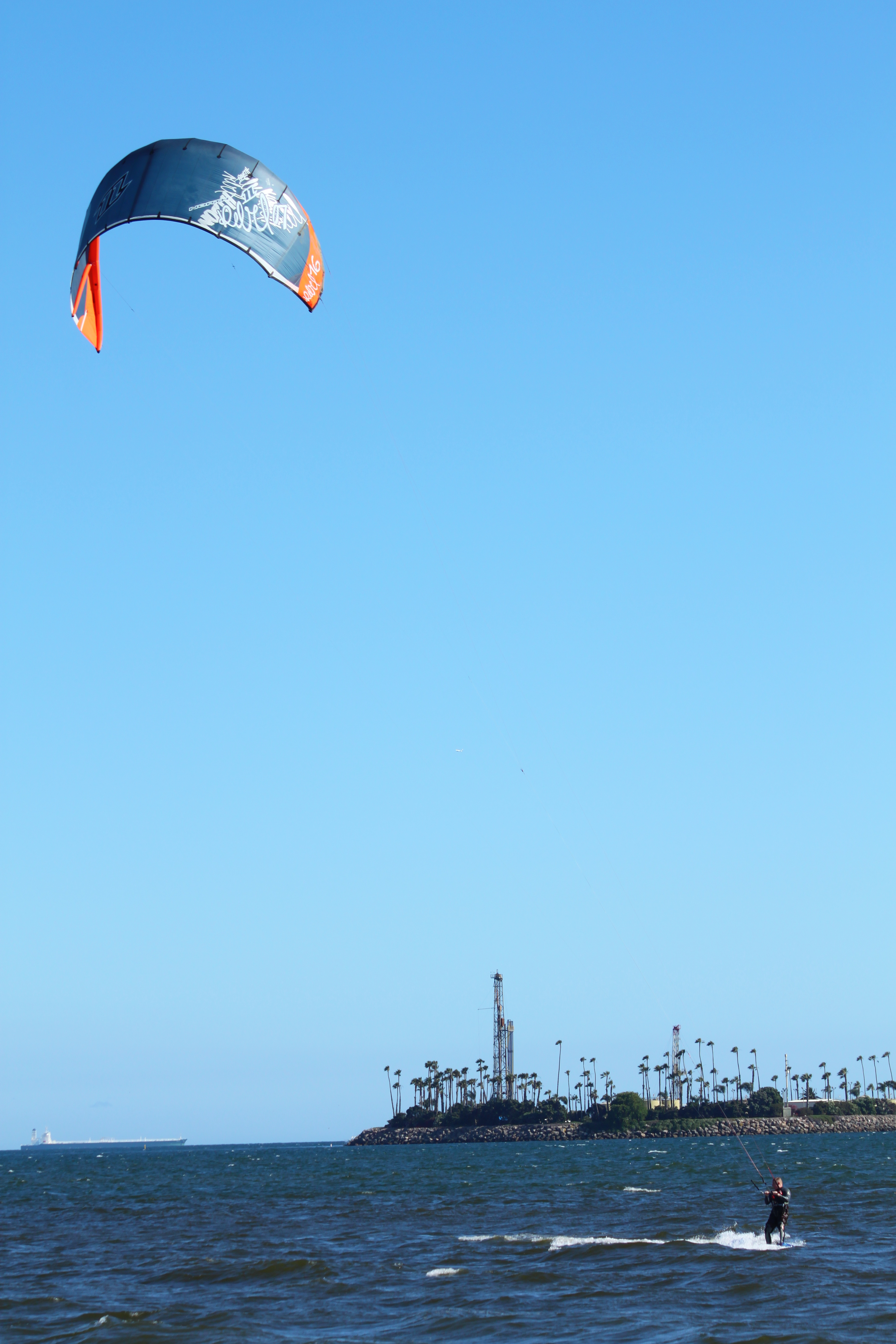 A Kite surfer in Long Beach harbor